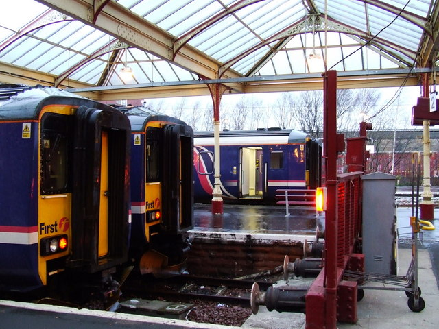 Kilmarnock railway station A busy scene, with three diesel trains in view, the furthest of which is about to depart for Glasgow Central.